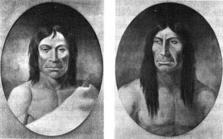 Tiloukaikt and Tomahas, Cayuse chiefs who led the Whitman Massacre. Paintings by Paul Kane.